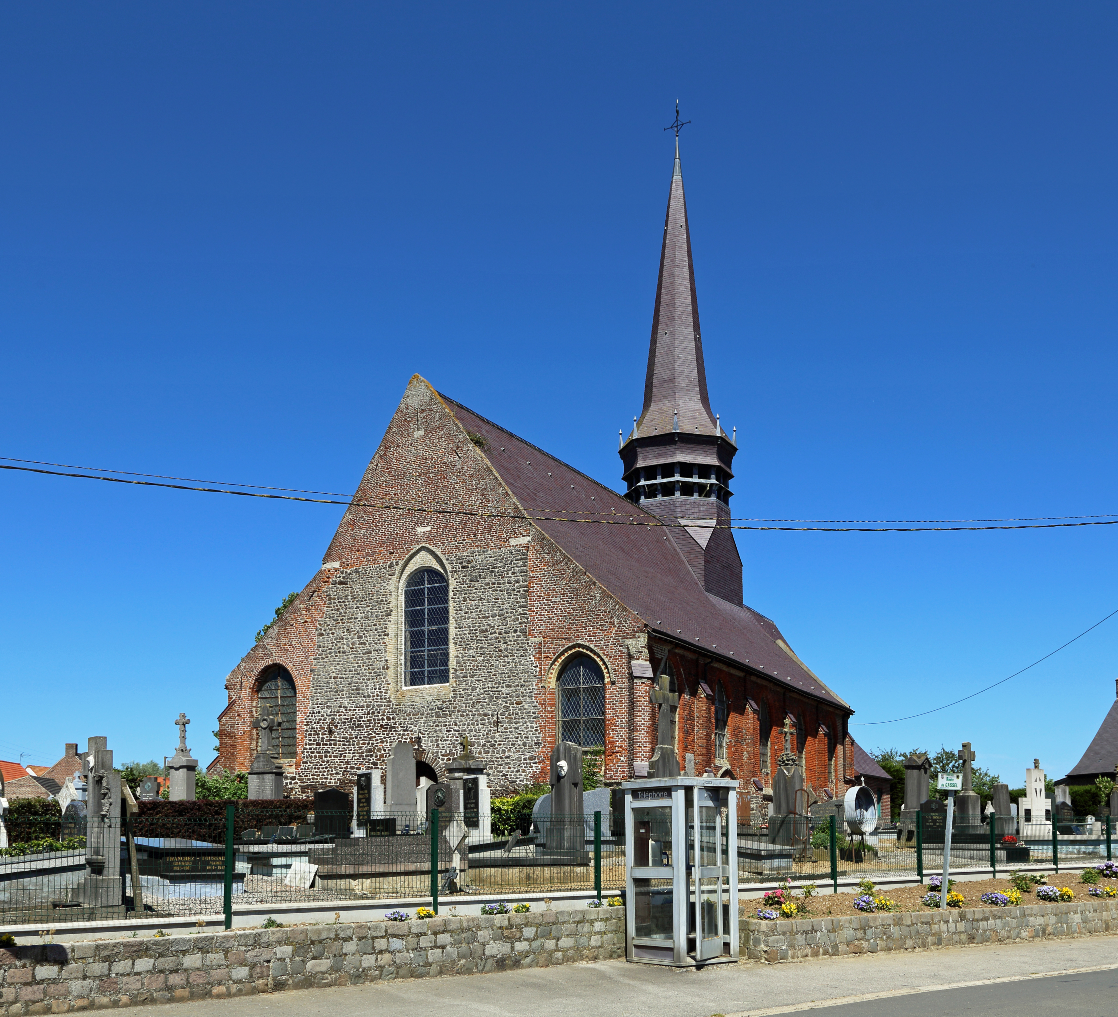 Wemaers-Cappel (département du Nord, France): St Martin's church